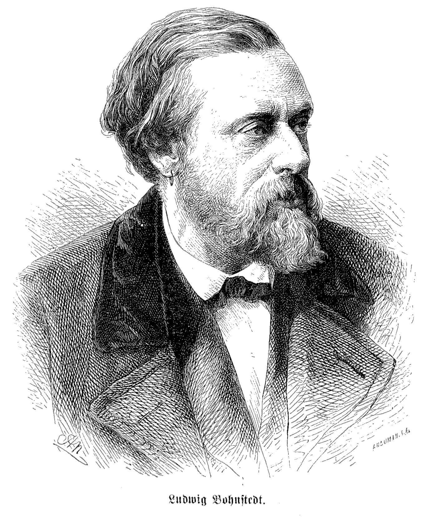 caption: "Ludwig Bohnstedt."